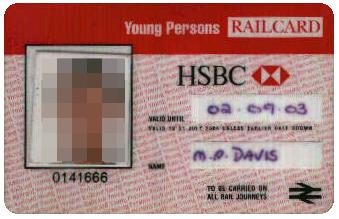 1999 version of the HSBC four-year Young Persons Railcard, with integral photograph (obscured). Scanned from my own collection.